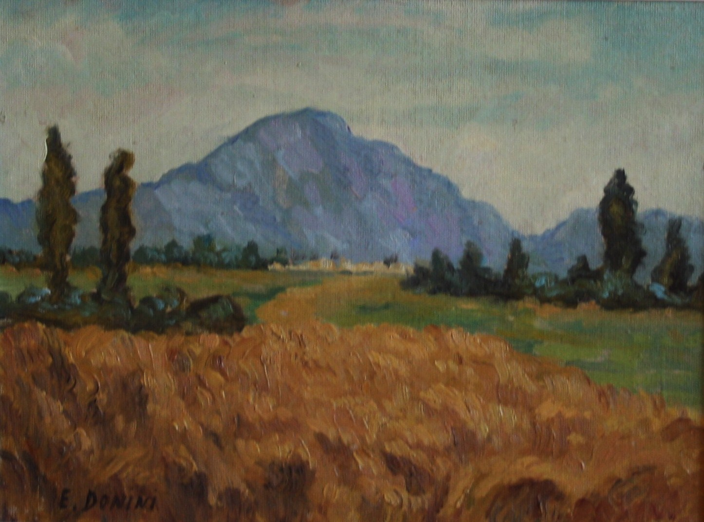 paesaggio 2 ettore donini